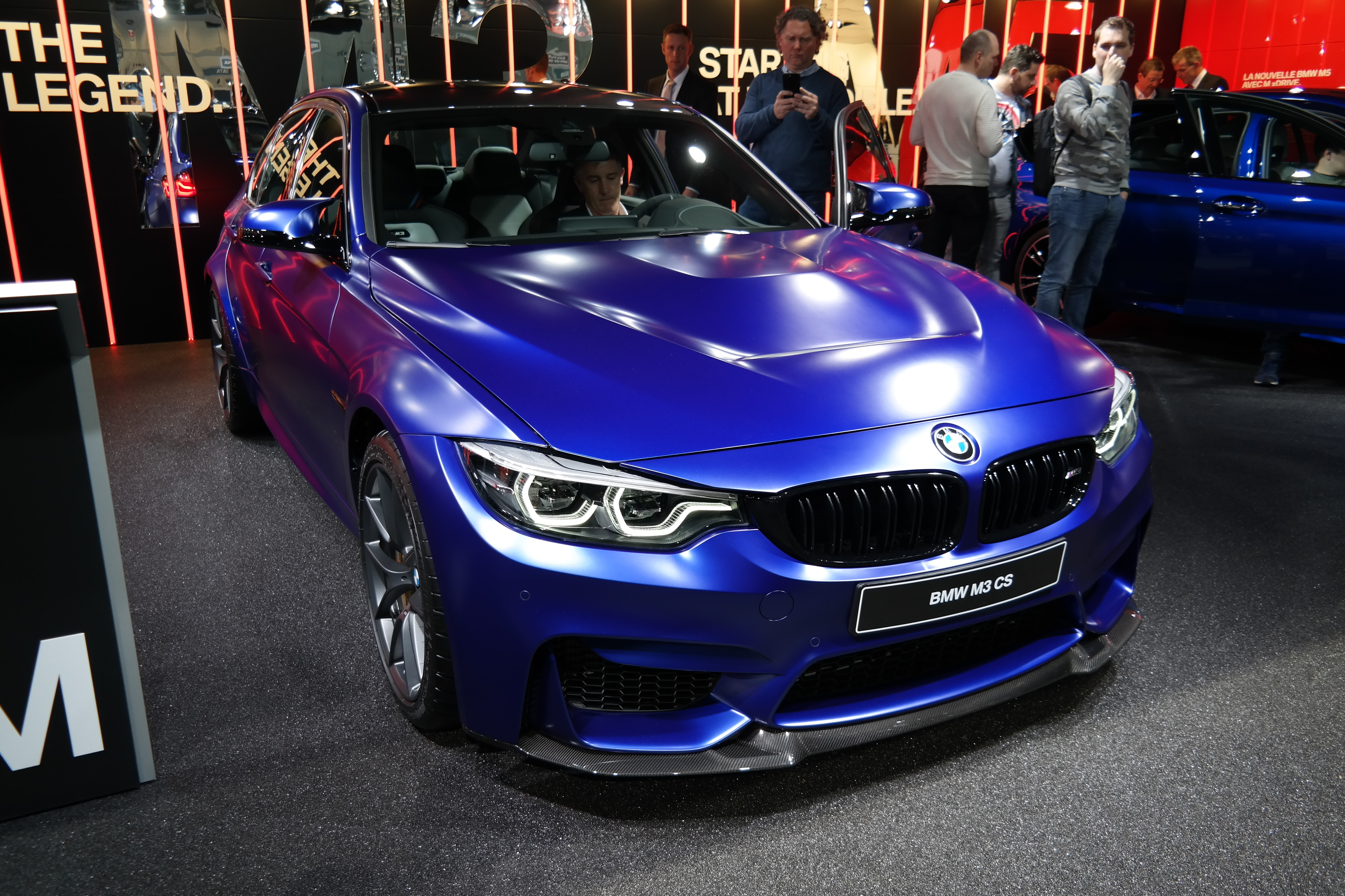 Geneva Motor Show 2018 (photo taken on the first press day)